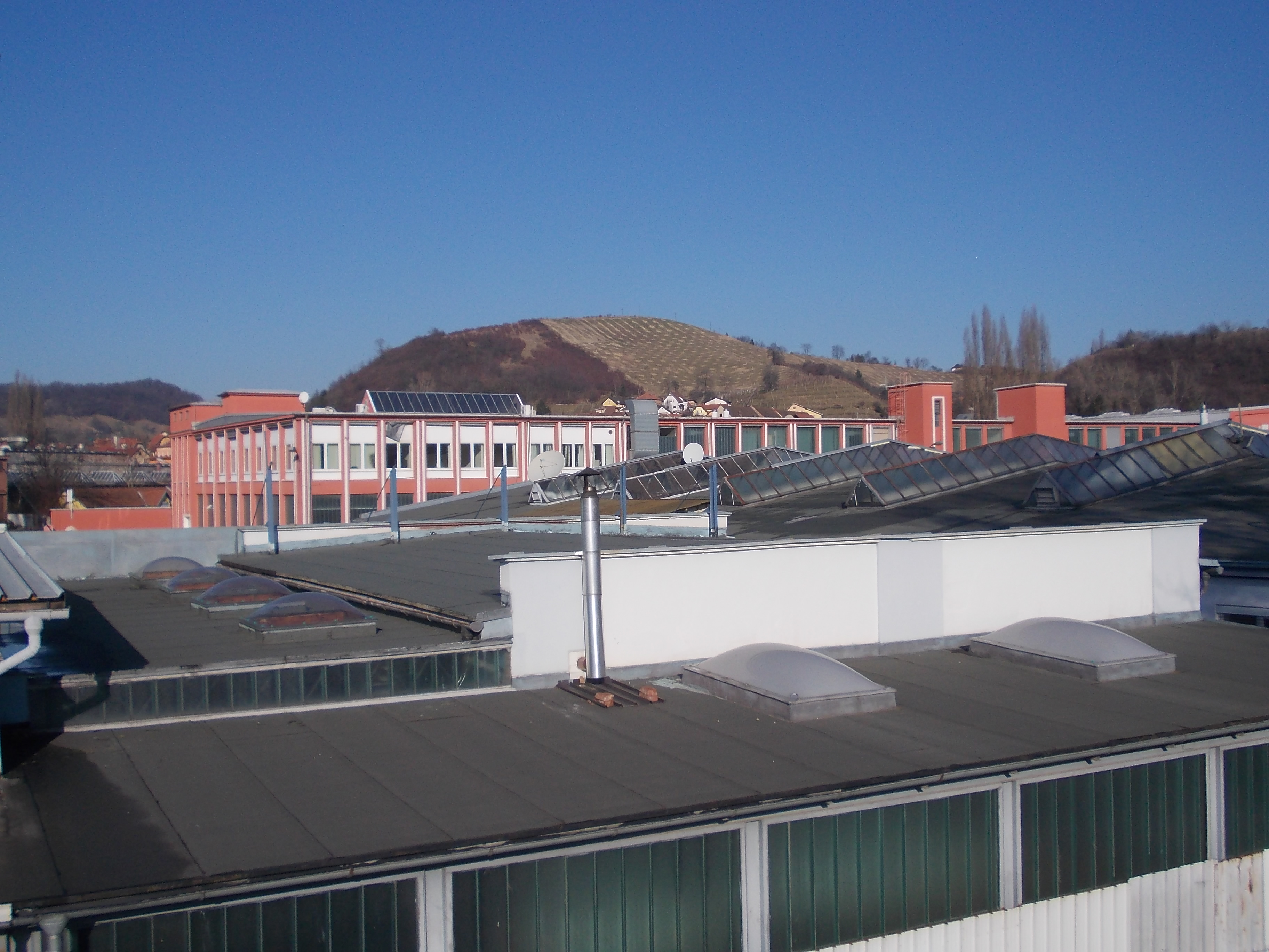 Melje, Maribor